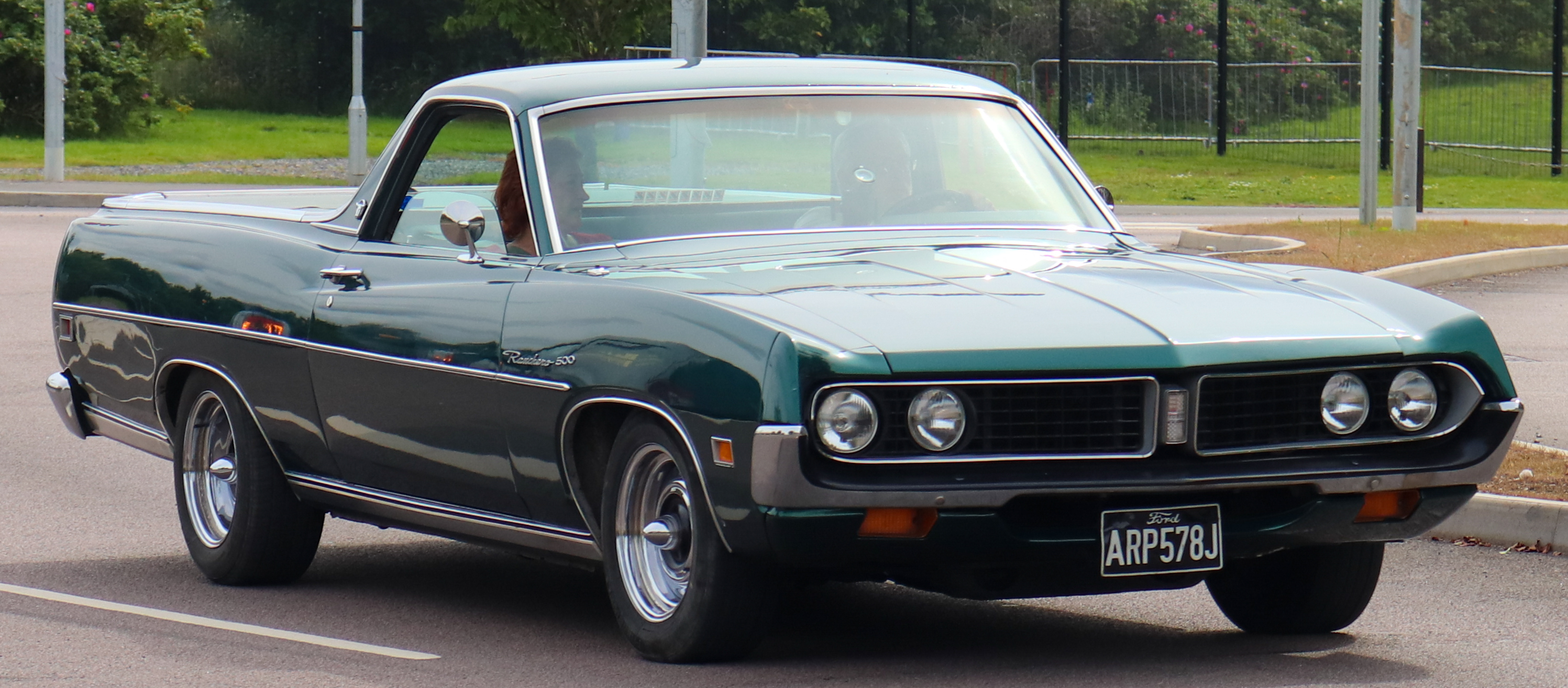 1971 Ford Ranchero 500 Taken at the British Motor Museum Old Ford Rally 2019, Gaydon